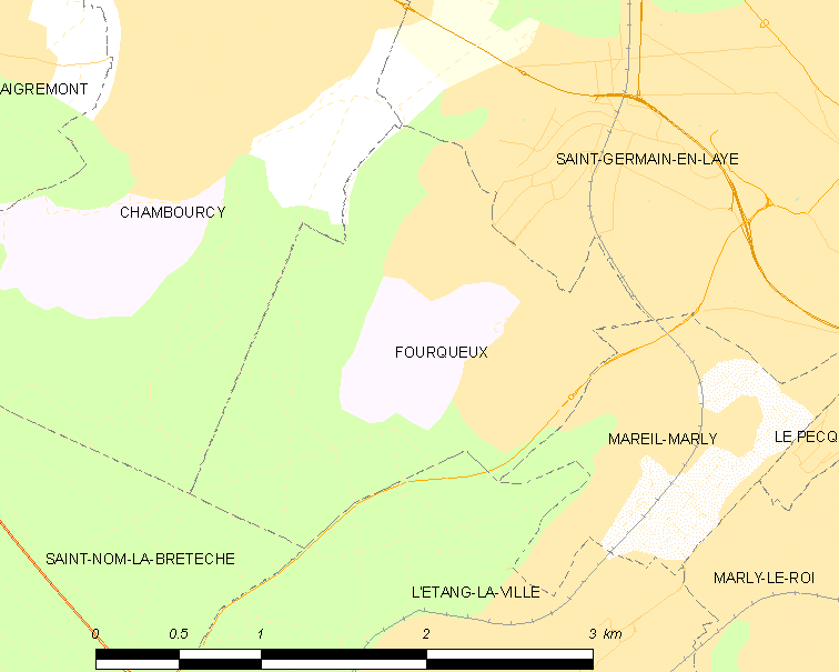 Map of French municipality Fourqueux